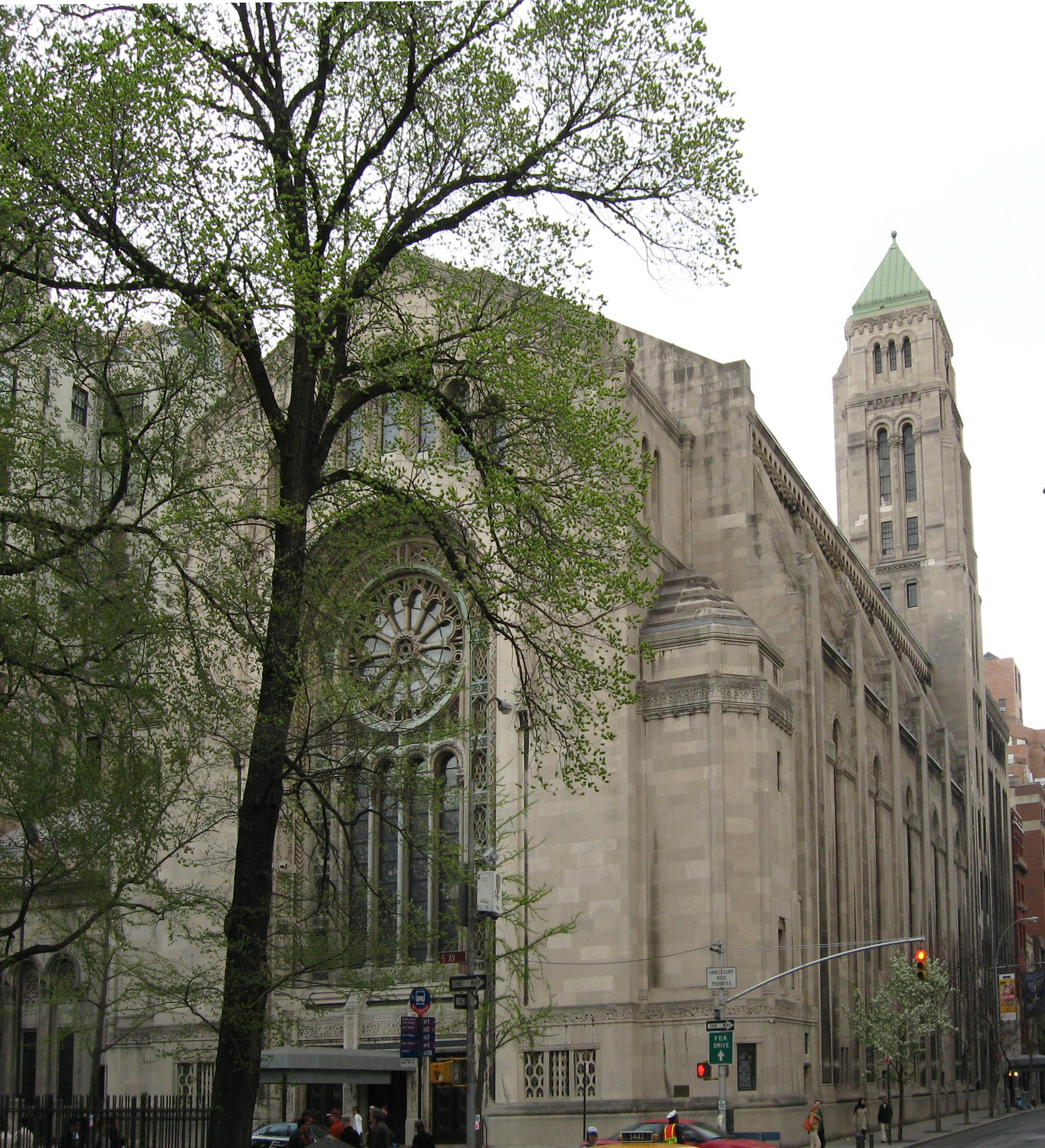 Temple Emanu-El on a mostly clear springtime afternoon from the lower Transverse Road.